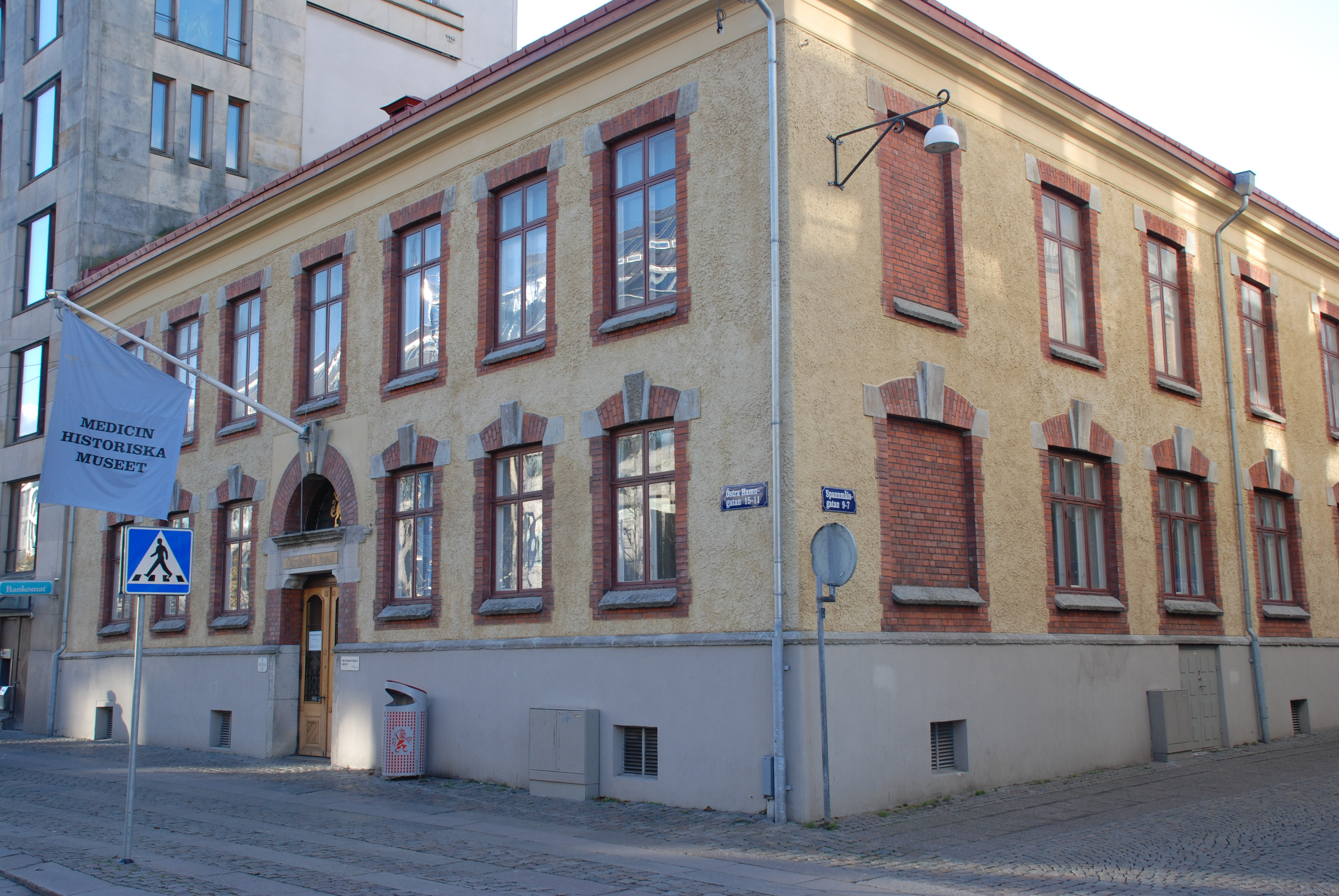 Oterdahlska huset, Östra Hamngatan 11 in Göteborg